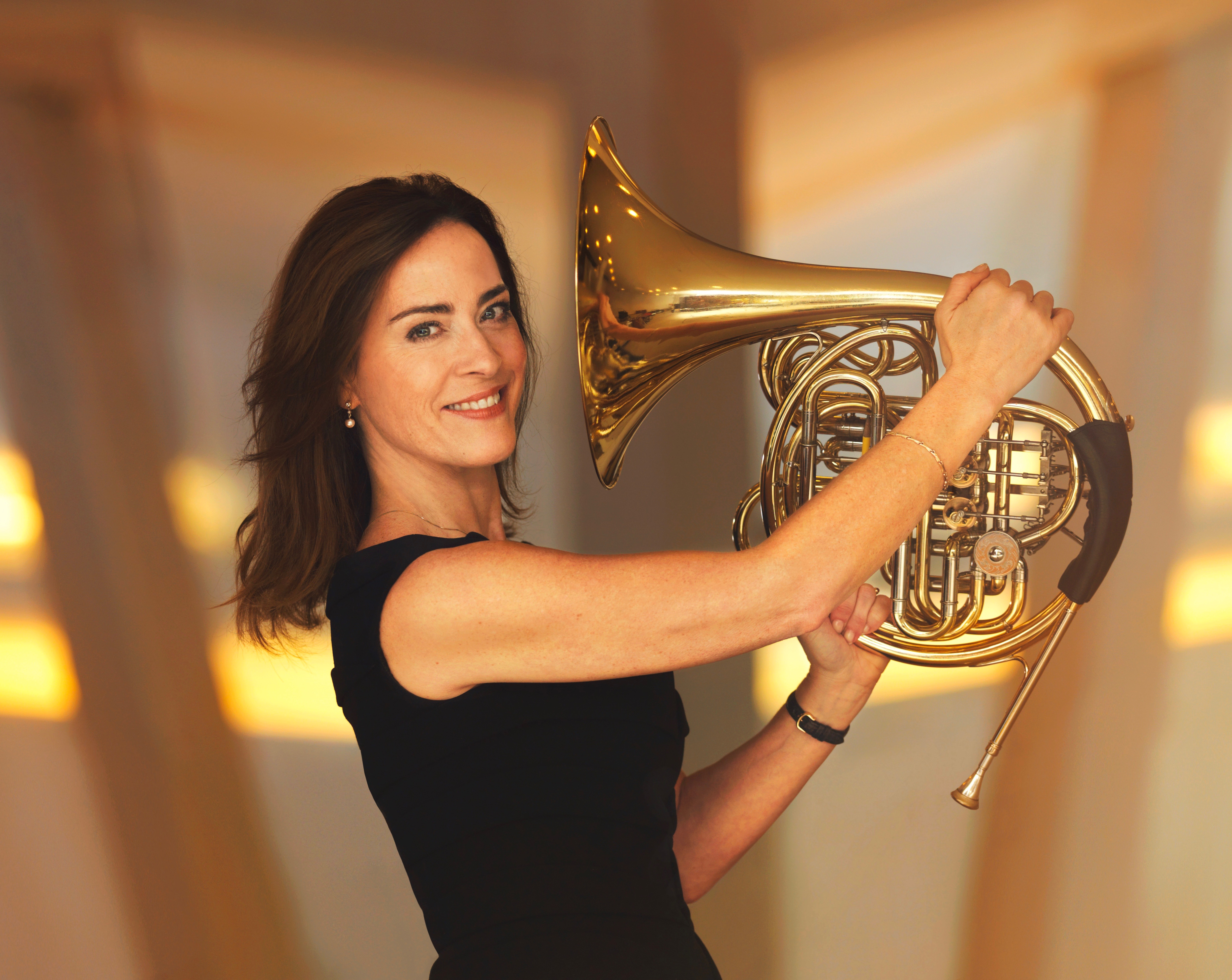 Sarah Willis holding her Alexander 103 French Horn